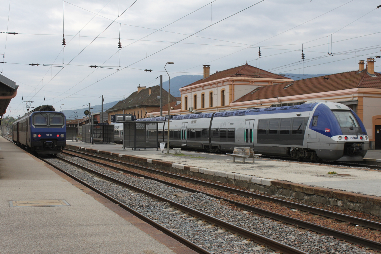 Annemasse train station.